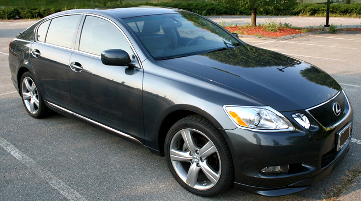 Permission obtained by User:Enigma3542002 from user marshmallo at ClubLexus for use on Wikipedia.